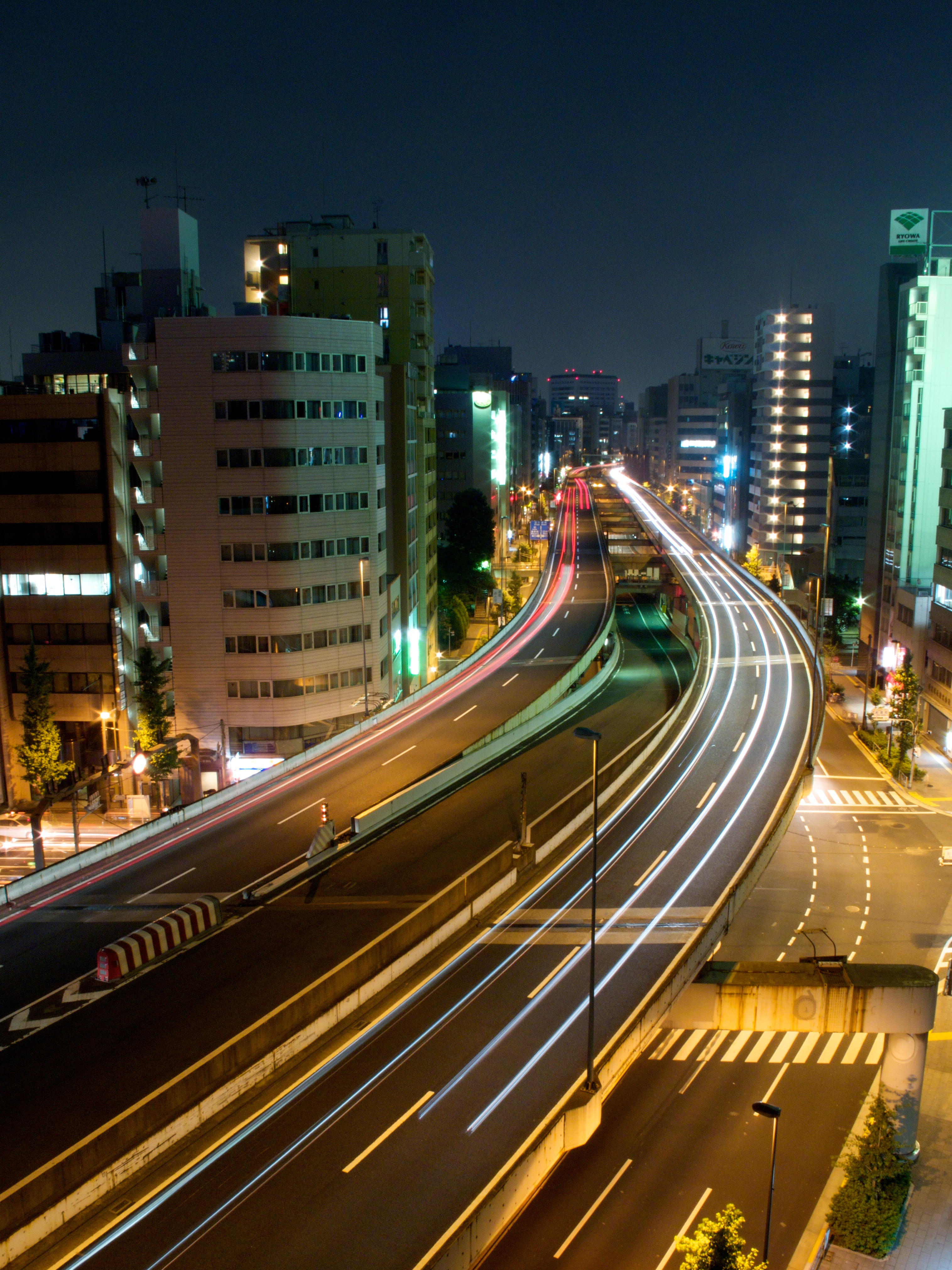 Shuto Expressway 1 at night, looking south of Kanda